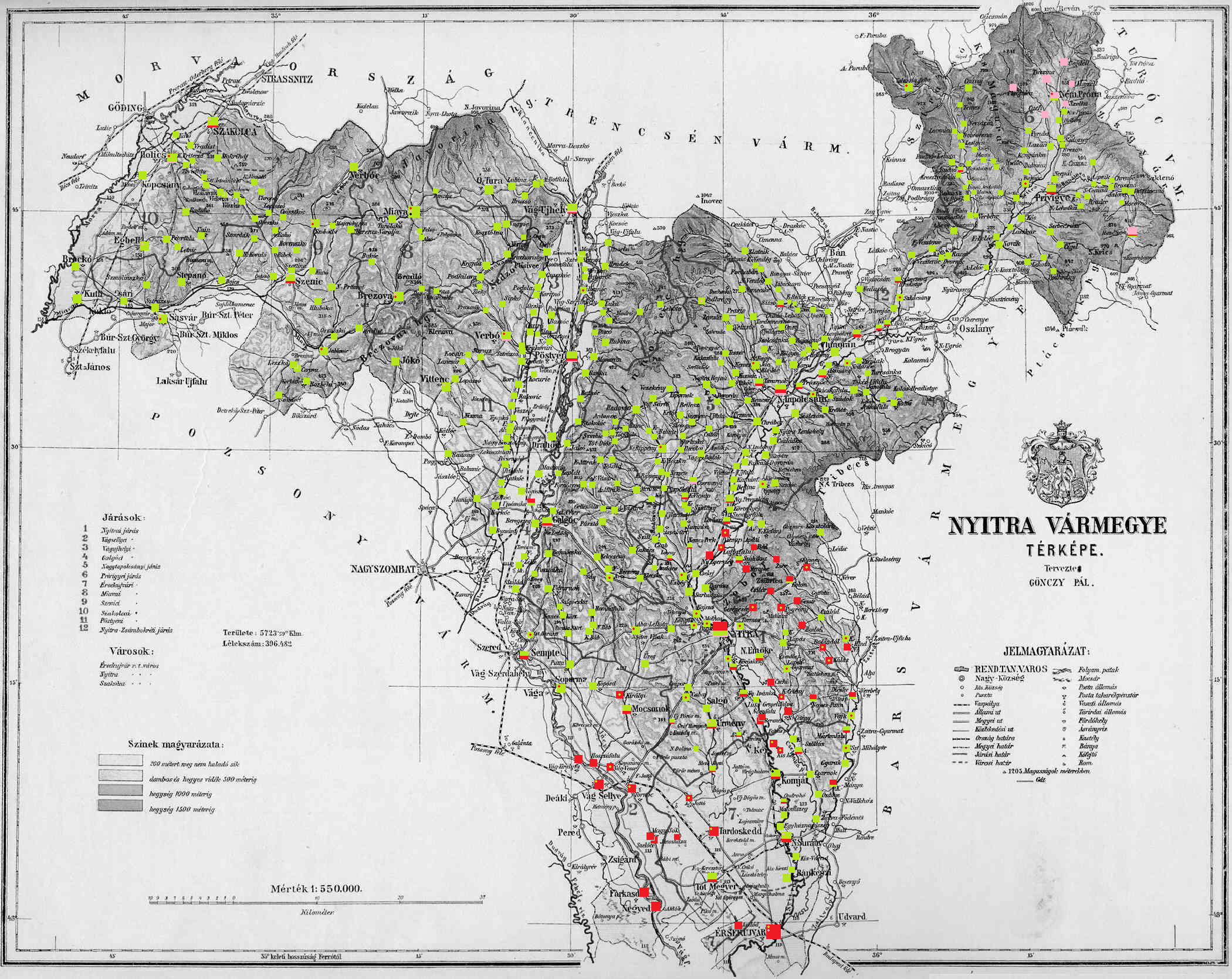 Ethnic map of the county (with data of the 1910 census). Key: light green - Slovaks; red - Hungarians; pink - Germans; black - Roma. Coloured dots in plain rectangles imply the presence of smaller minority populations (generally more than 100 people or 10%). Multicoloured rectangles imply cities and villages with multi-ethnic populations with the order of the stripes following the ethnic composition of the settlement.